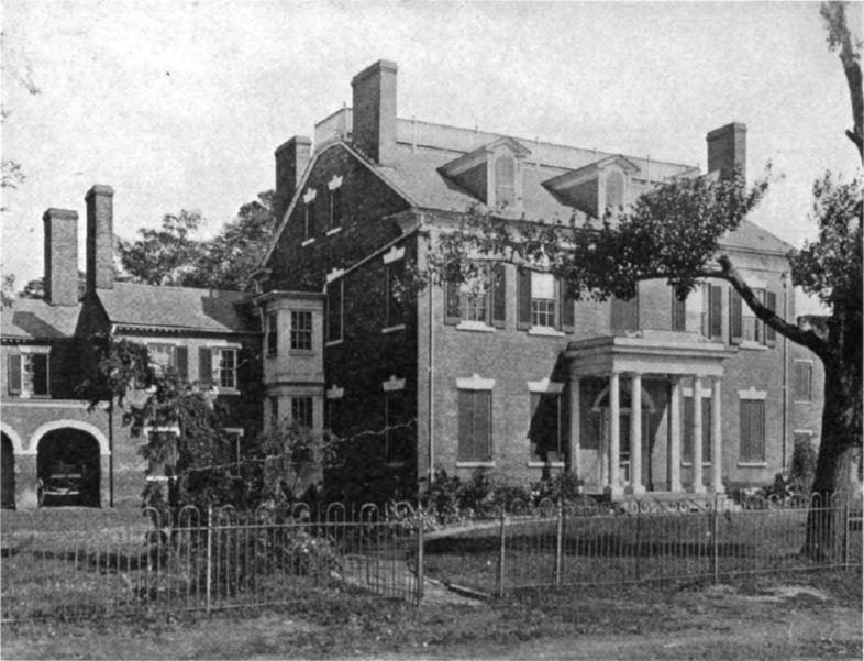 Colross (also historically known as Belle Air and Grasshopper Hall) is a Georgian mansion and former estate in Old Town Alexandria in the U.S. state of Virginia. Colross is currently the administration building for Princeton Day School in Princeton, New Jersey. This image is scanned from: Rogers and Manson Company (1916) The Brickbuilder, Volume 25, Boston, Massachusetts: Rogers and Manson Company